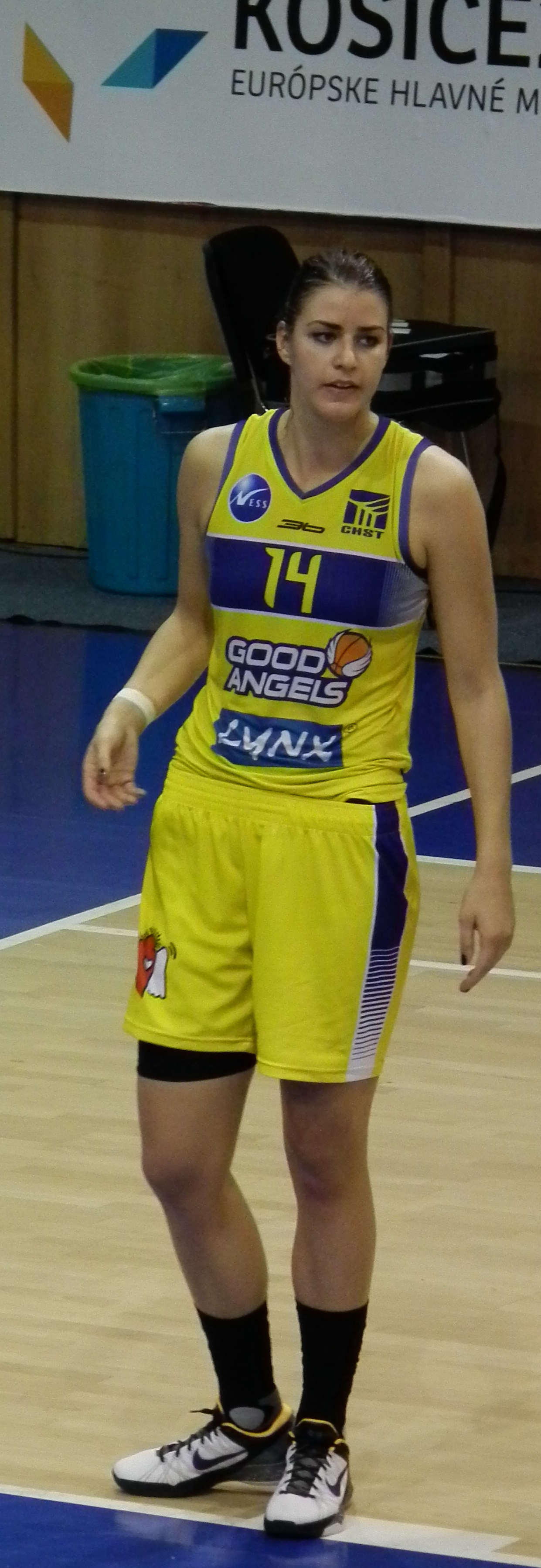 Tijana Krivačevič in fifth game of finale series of Slovak extraleague 2012 / 2013 (taken in Infinity aréna in Košice)